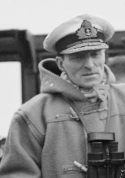 The Royal Navy during the Second World War Supporting the opening stages in the battle for Rome with coastal bombardments and escorts for the landing craft of all types that swept into the beaches at Anzio in the wake of the minesweepers. Rear Admiral Troubridge (right), Senior Officer of the British Naval Forces taking part in the operation, conferring with (centre) Rear Admiral J M Mansfield, DSC, on the bridge of the latter's flagship, HMS ORION. On the left is Captain J P Gornall, Commanding Officer of the ship.